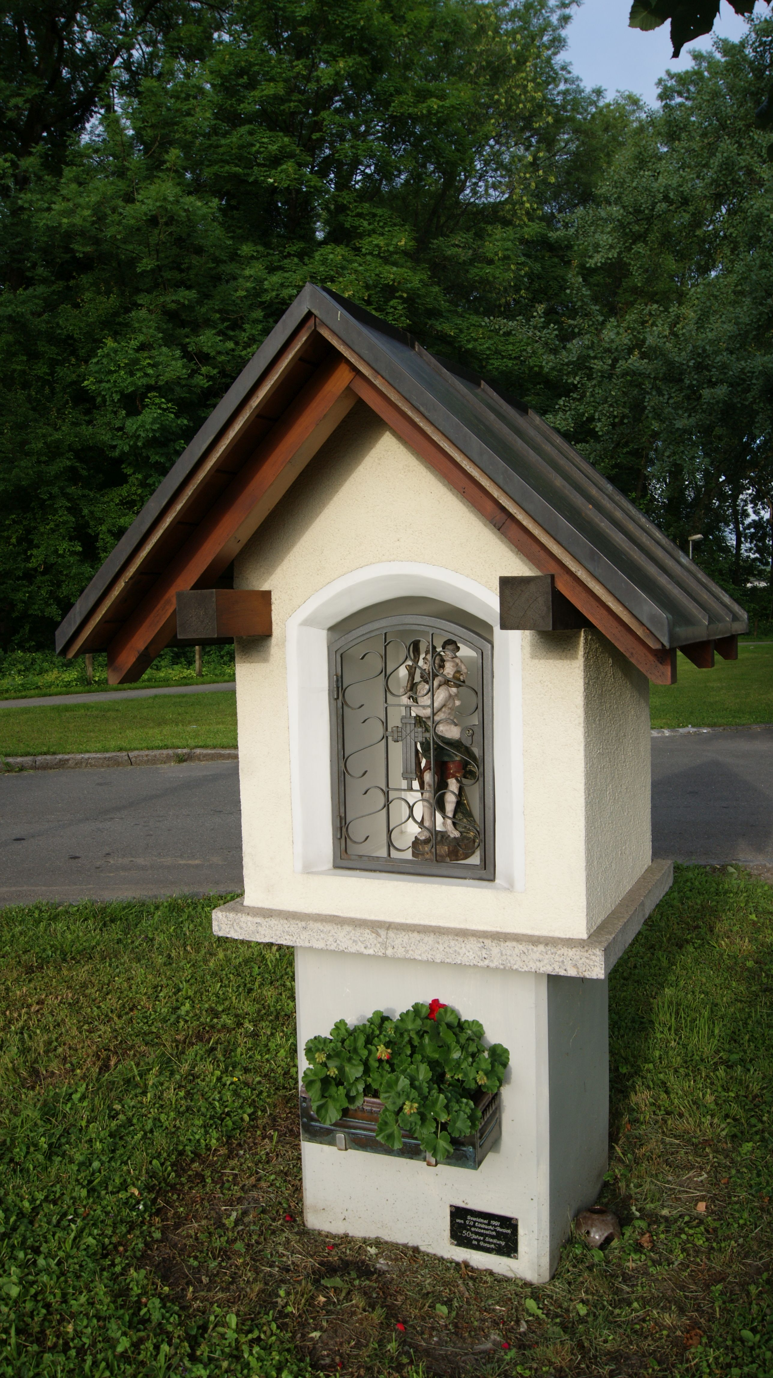 Wayside shrine near the kindergarten in Forach in Dornbirn, Vorarlberg, Austria.